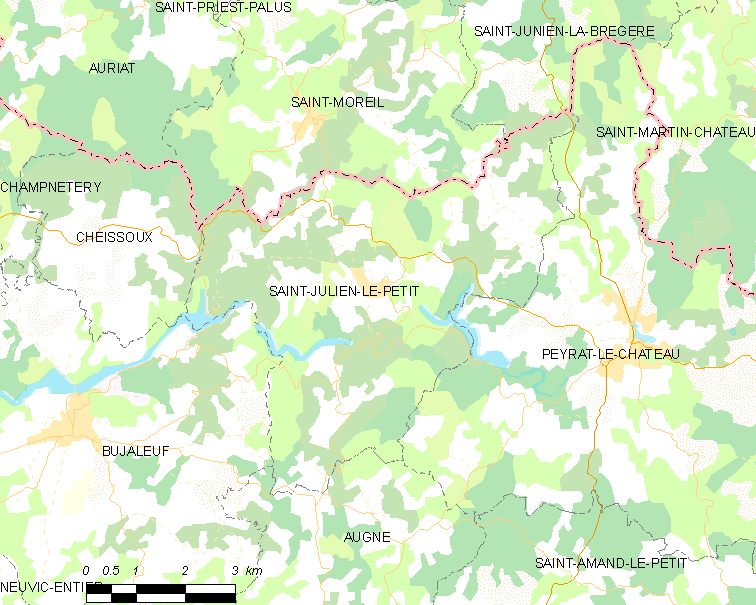 Map of French municipality Saint-Julien-le-Petit